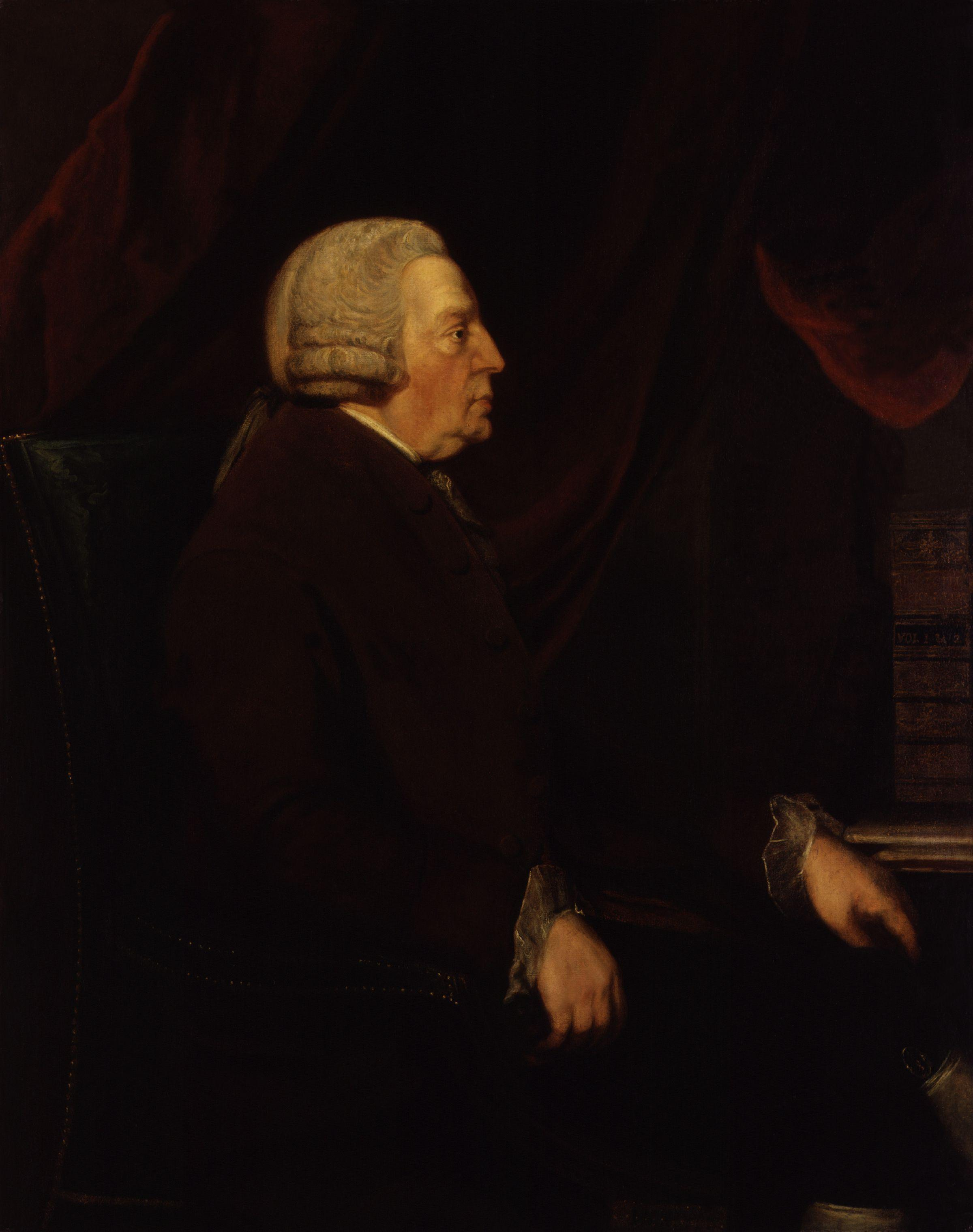 James Harris, by Frances Reynolds (died 1807), given to the National Portrait Gallery, London in 1865. All images in this batch have been confirmed as author died before 1939 according to the official death date listed by the NPG.